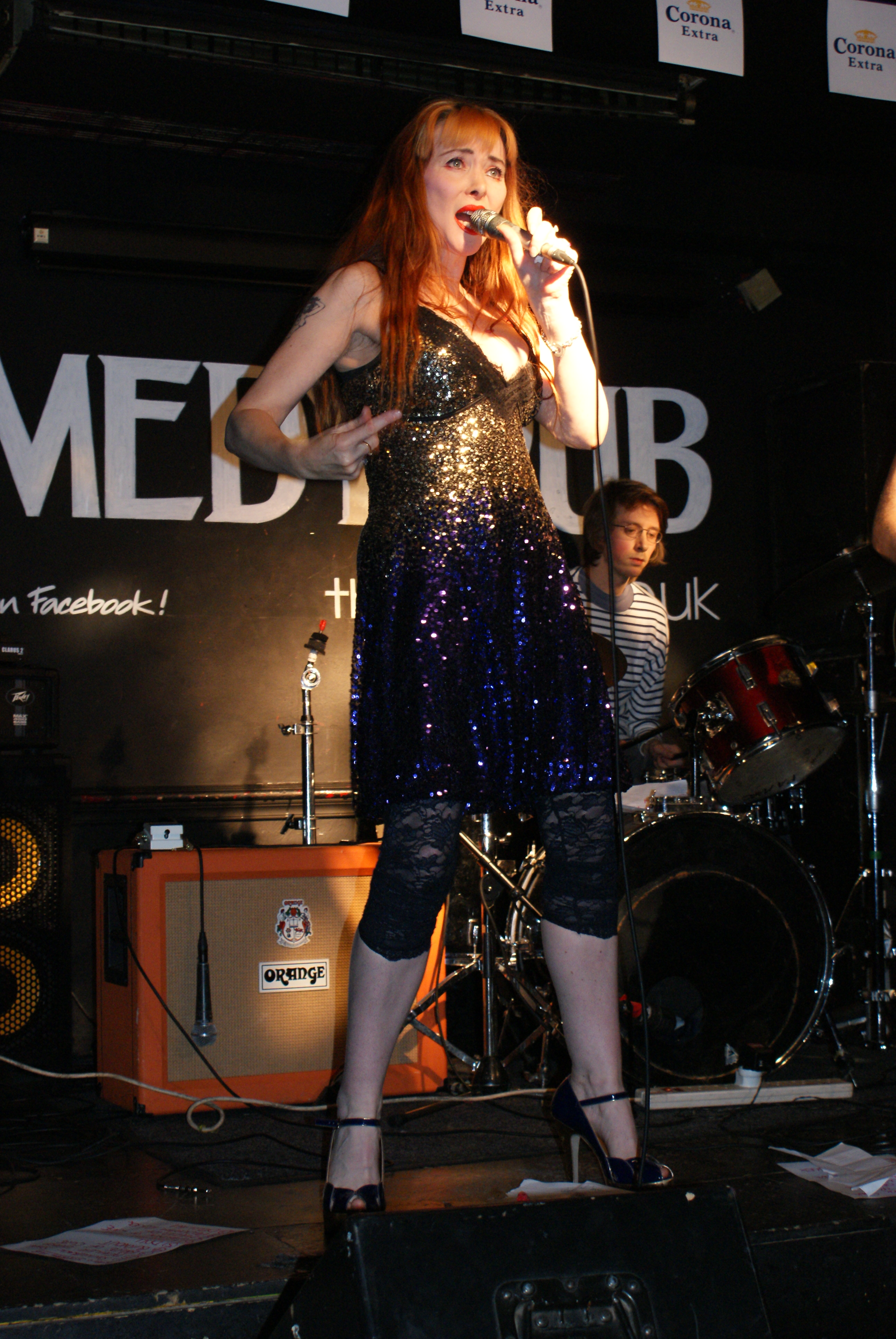 A photograph of Eileen Daly performing at the Comedy Pub, London in November 2009